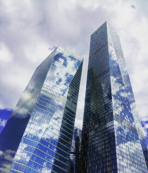 OKO Tower